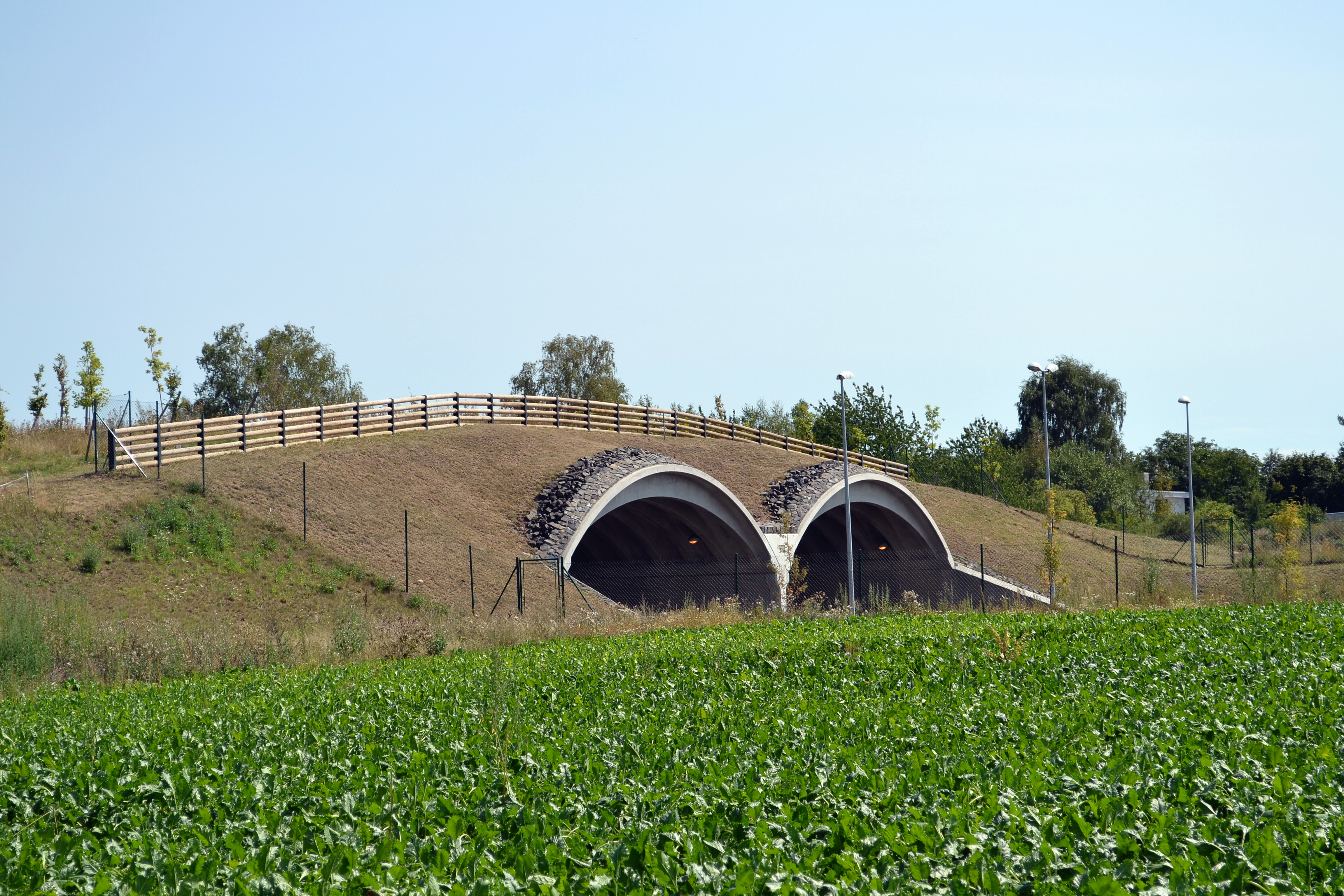 A wildlife overpass over expressway Vysočanská radiála opened in 2011, which connects R1 expressway (outer ring of Prague) and Kbelská street. Prague, Czech Republic.